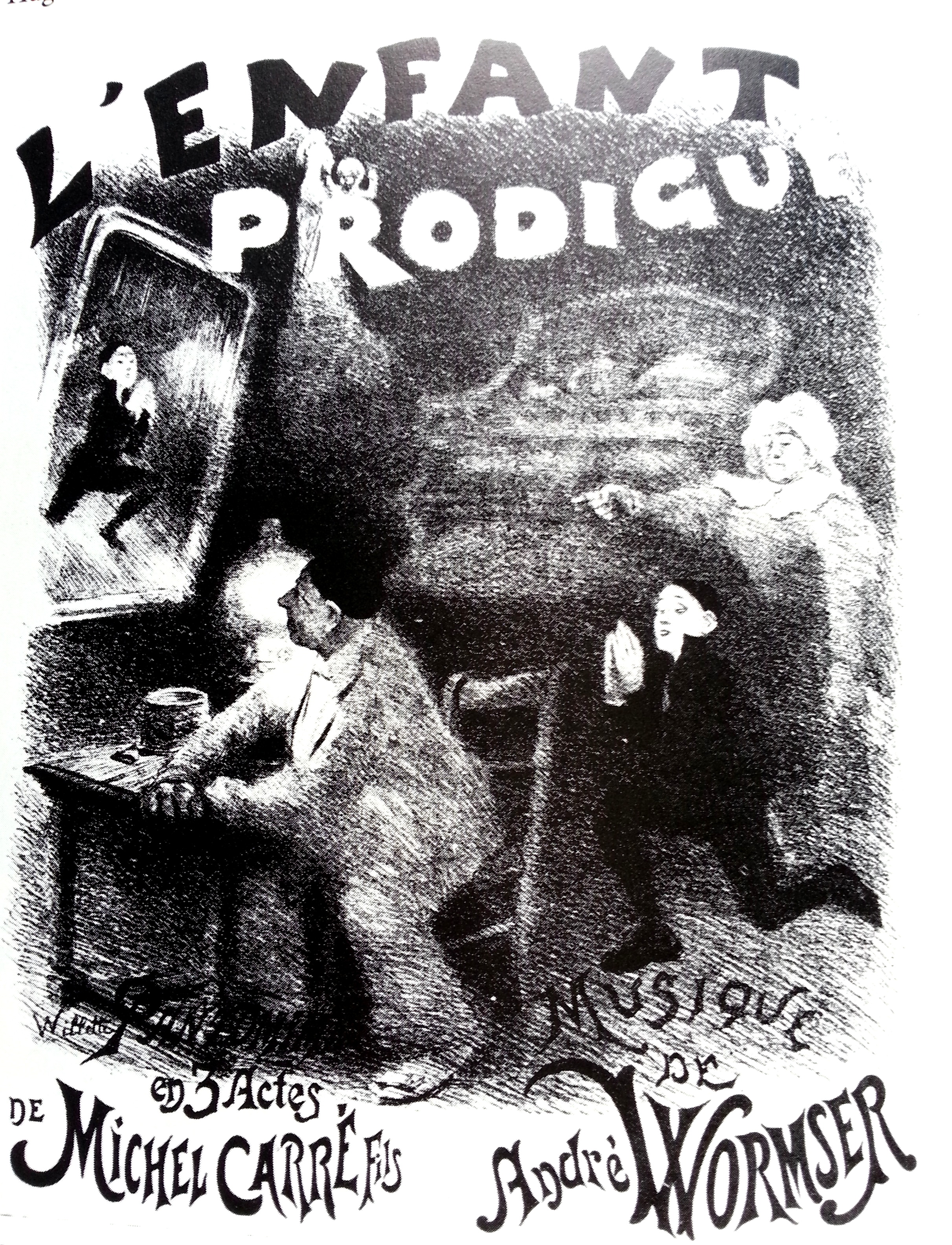 B&W poster depicting the Prodigal Pierrot on his knees begging forgiveness from his father, his mother, behind him, pointing to the object of his plea. At top: "L'Enfant Prodigue". At bottom left: "Pantomime in 3 Actes de Michel Carre fils"; at bottom right: "Musique de Andre Wormser".